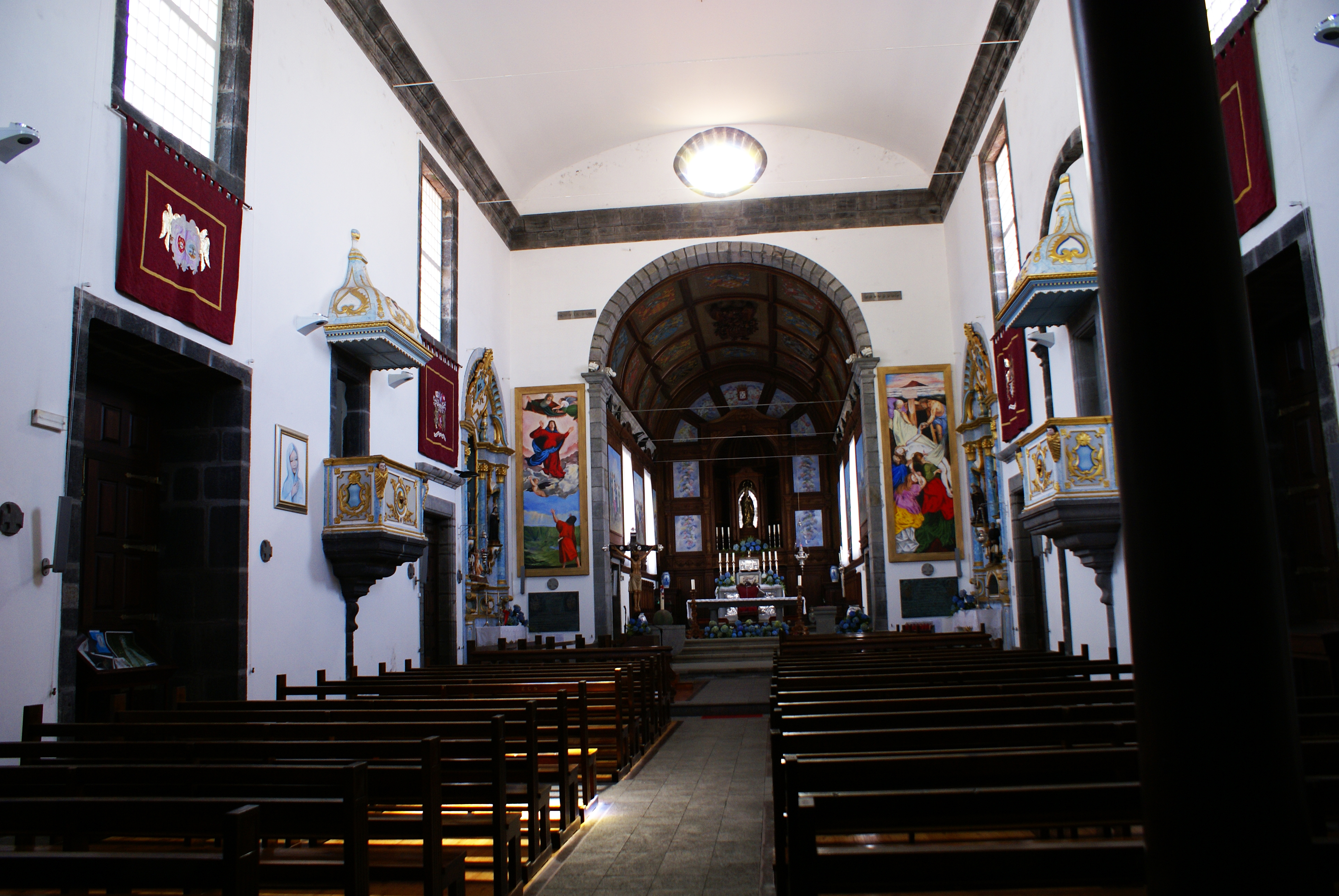 Igreja de Nossa Senhora das Angústias, nave central, Angustias, concelho da Horta, ilha do Faial, Açores, Portugal